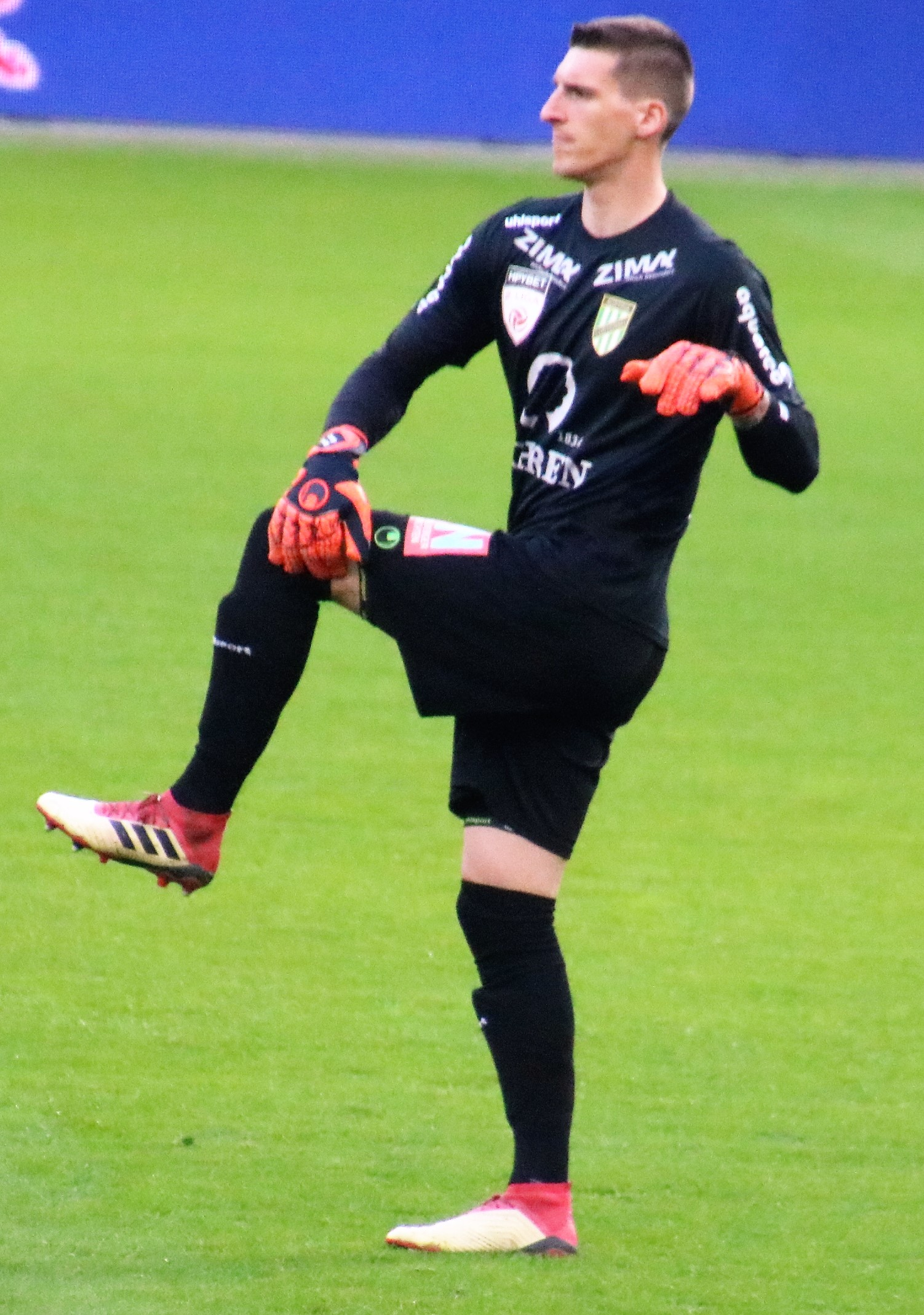 league match Austria 2nd league